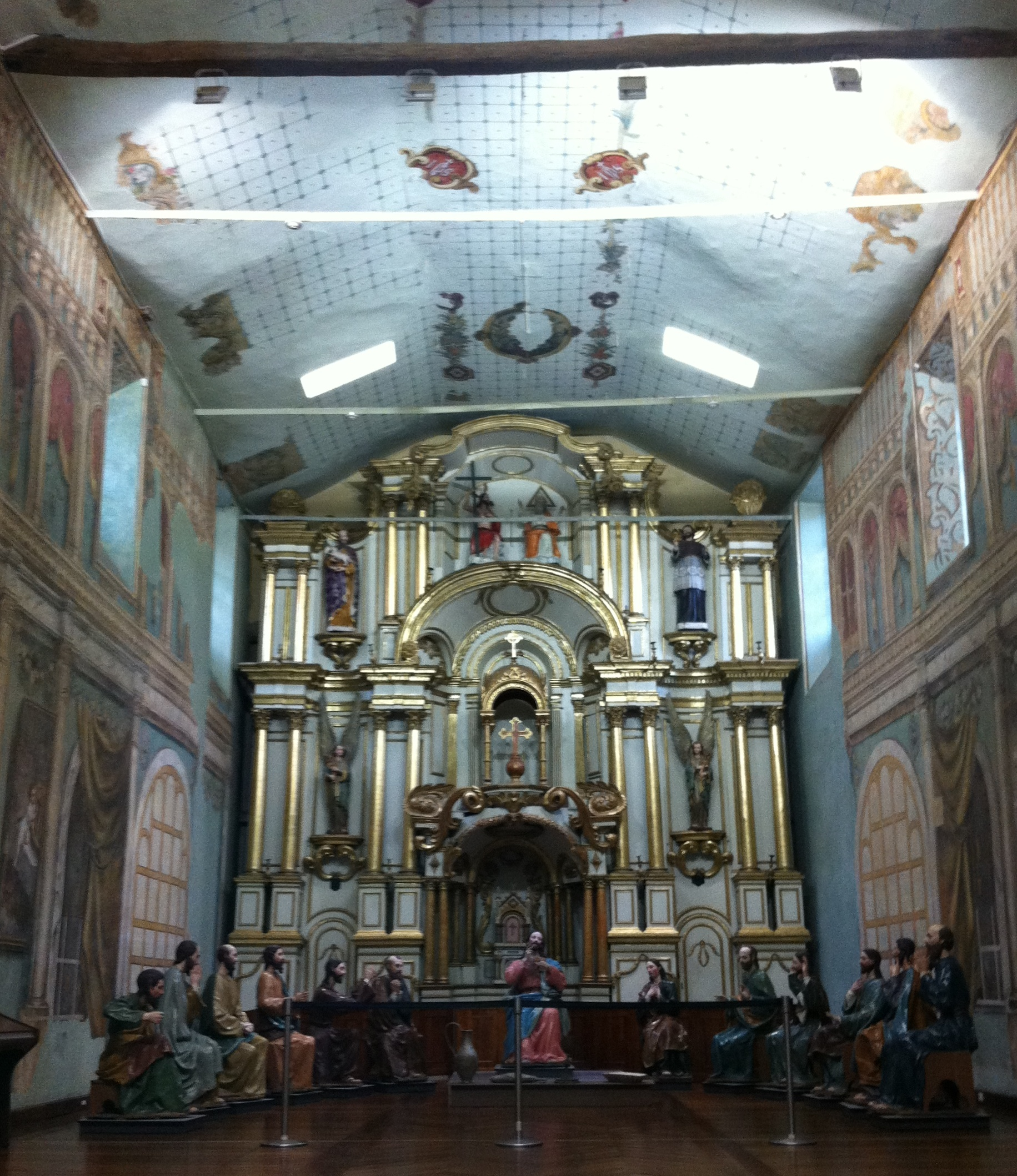 Interior of the Old Cathedral of Cuenca (officially Iglesia del Sagrario) in Ecuador: The High Altar.